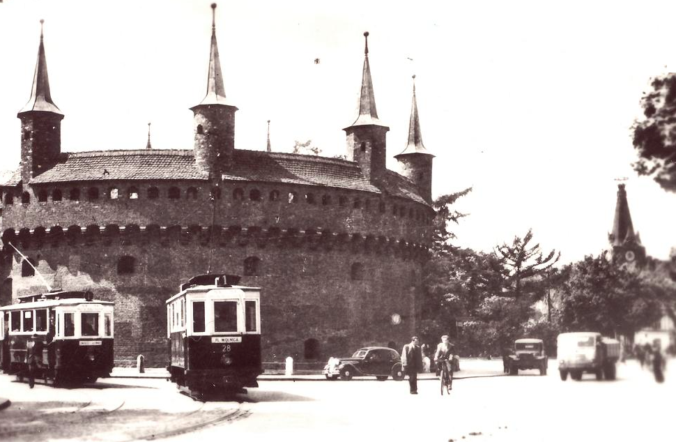 trams in front of barbakan